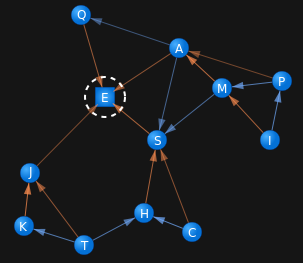 DODAG - Destination Oriented Directed Acyclic Graph